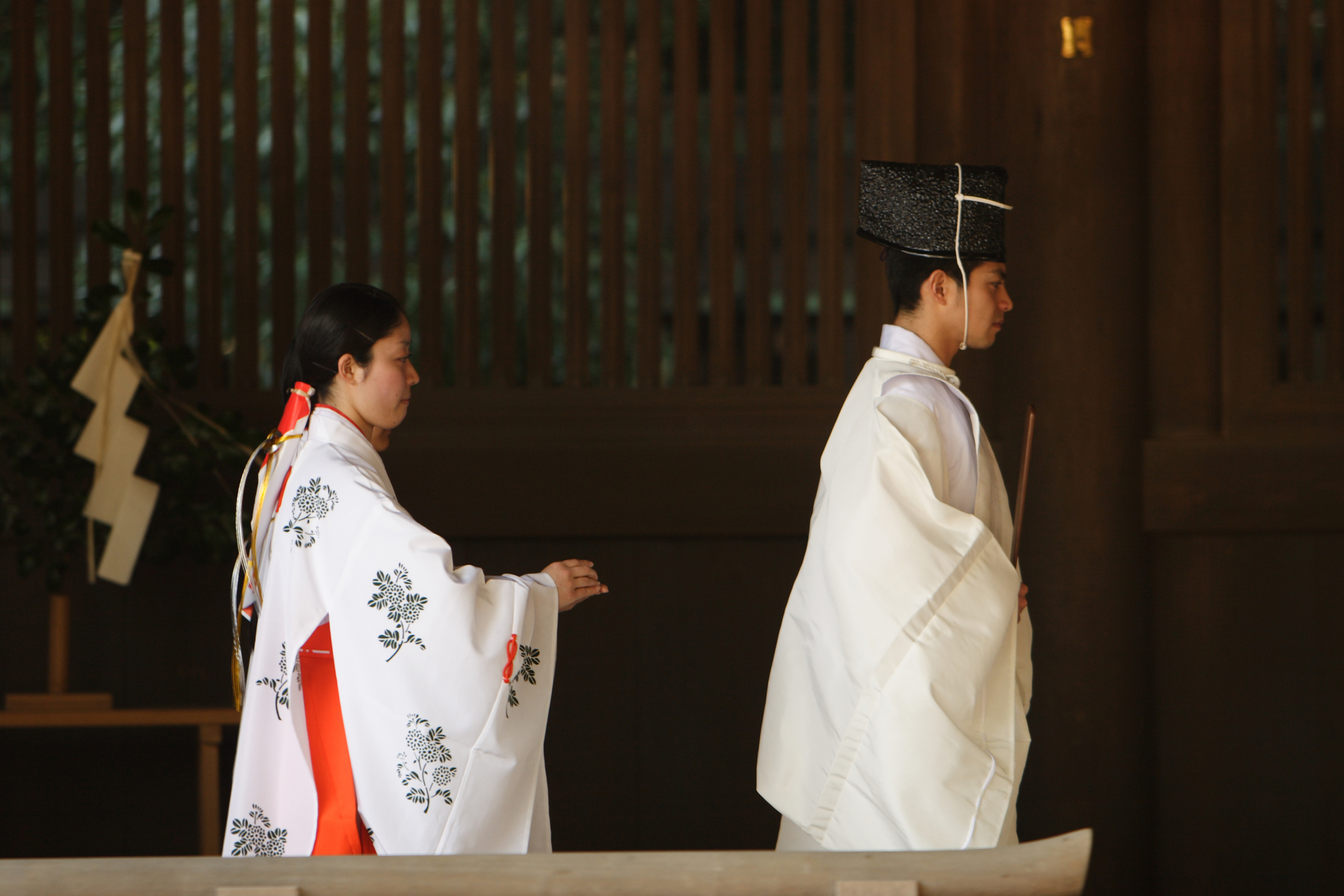 Kannushi and miko